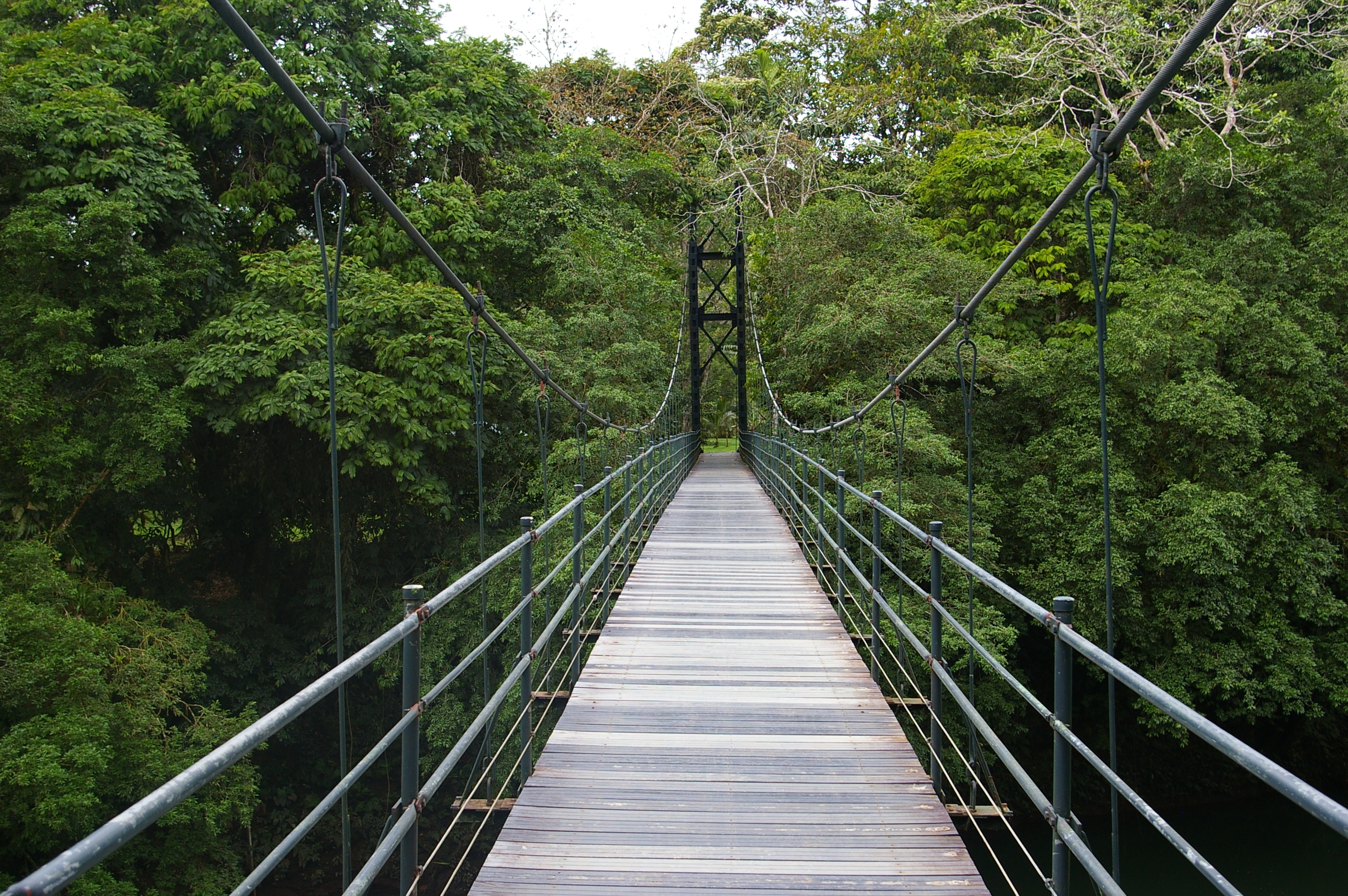 Bridge over the Rio Puerto Viejo at La Selva Biological Station